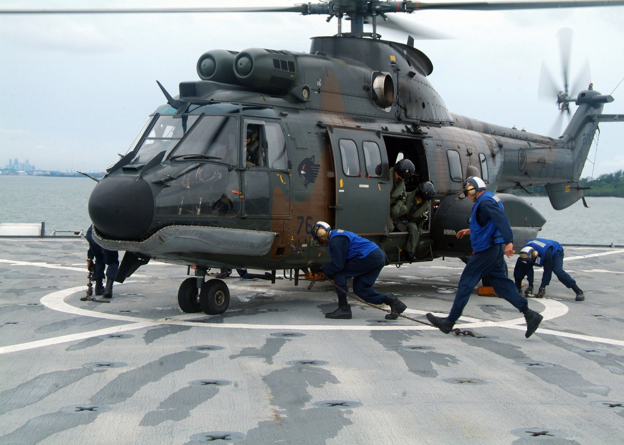 Chalk and chainmen secure a Republic of Singapore Air Force Eurocopter AS332 Super Puma to the flight deck of dock landing ship USS Harpers Ferry (LSD-49) during deck landing qualifications (DLQs) as part of the Singapore stage of Cooperation Afloat Readiness and Training (CARAT) 2007. DLQs were conducted to enhance the interoperability between the U.S. and Singapore navies. CARAT is an annual series of bilateral maritime training exercises between the United States and six Southeast Asian nations designed to build relationships and enhance the operational readiness of the participating forces. Harpers Ferry is the flagship for CARAT 2007 with Commander Destroyer Squadron 1 embarked on board. U.S. Navy photo by Mass Communication Specialist 3rd Class Mark R. Alvarez (RELEASED).